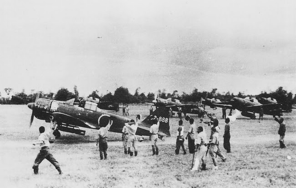 Kamikaze Shikishima unit to make a sortie against on October 21